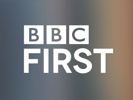 Logo of BBC First